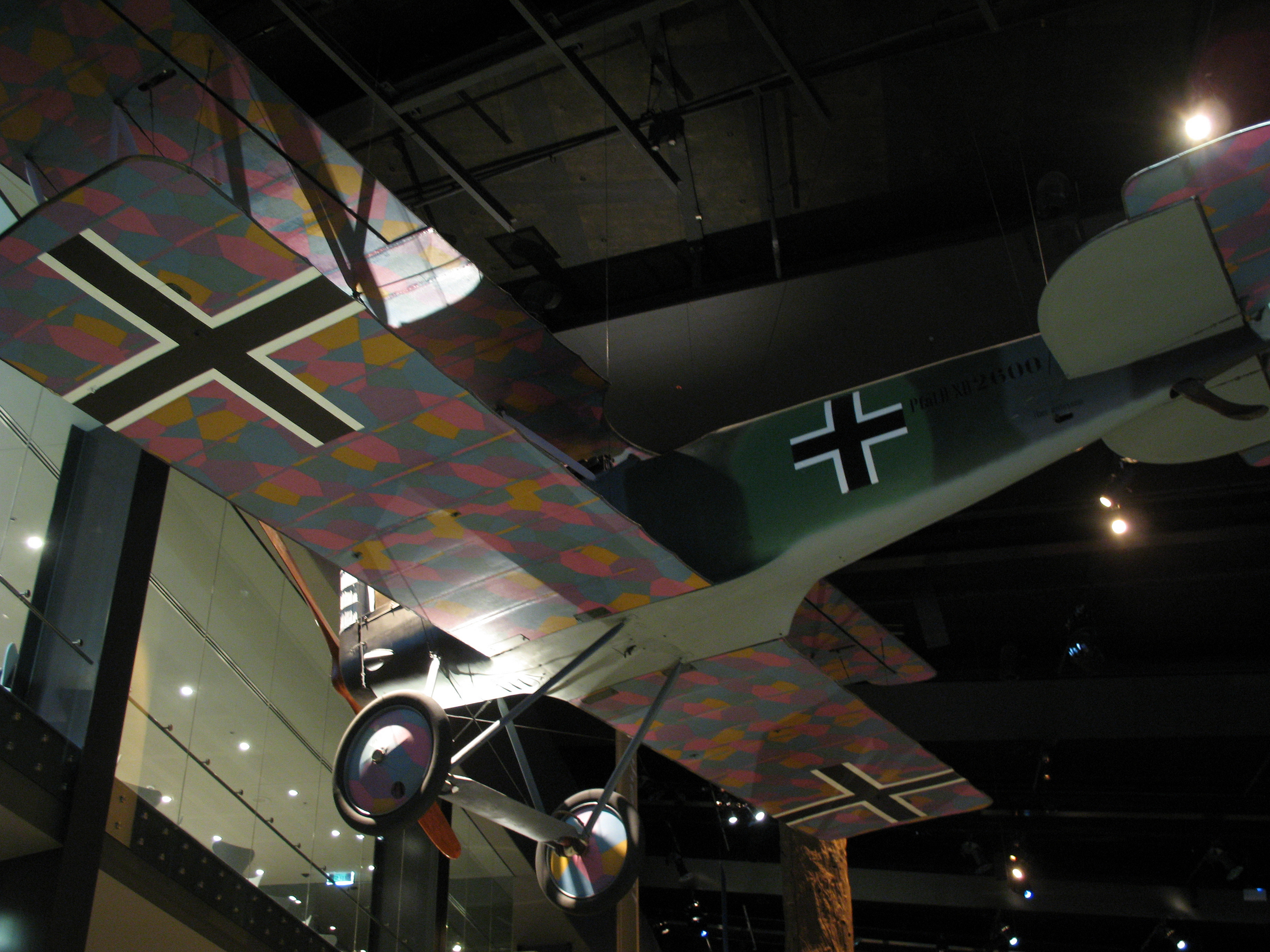 A Pfalz D.XII with serial 2600/18 as it is displayed in AWM ANZAC Hall, Canberra.